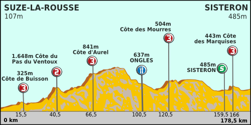 Paris-Nice 2012 Profile stage 6